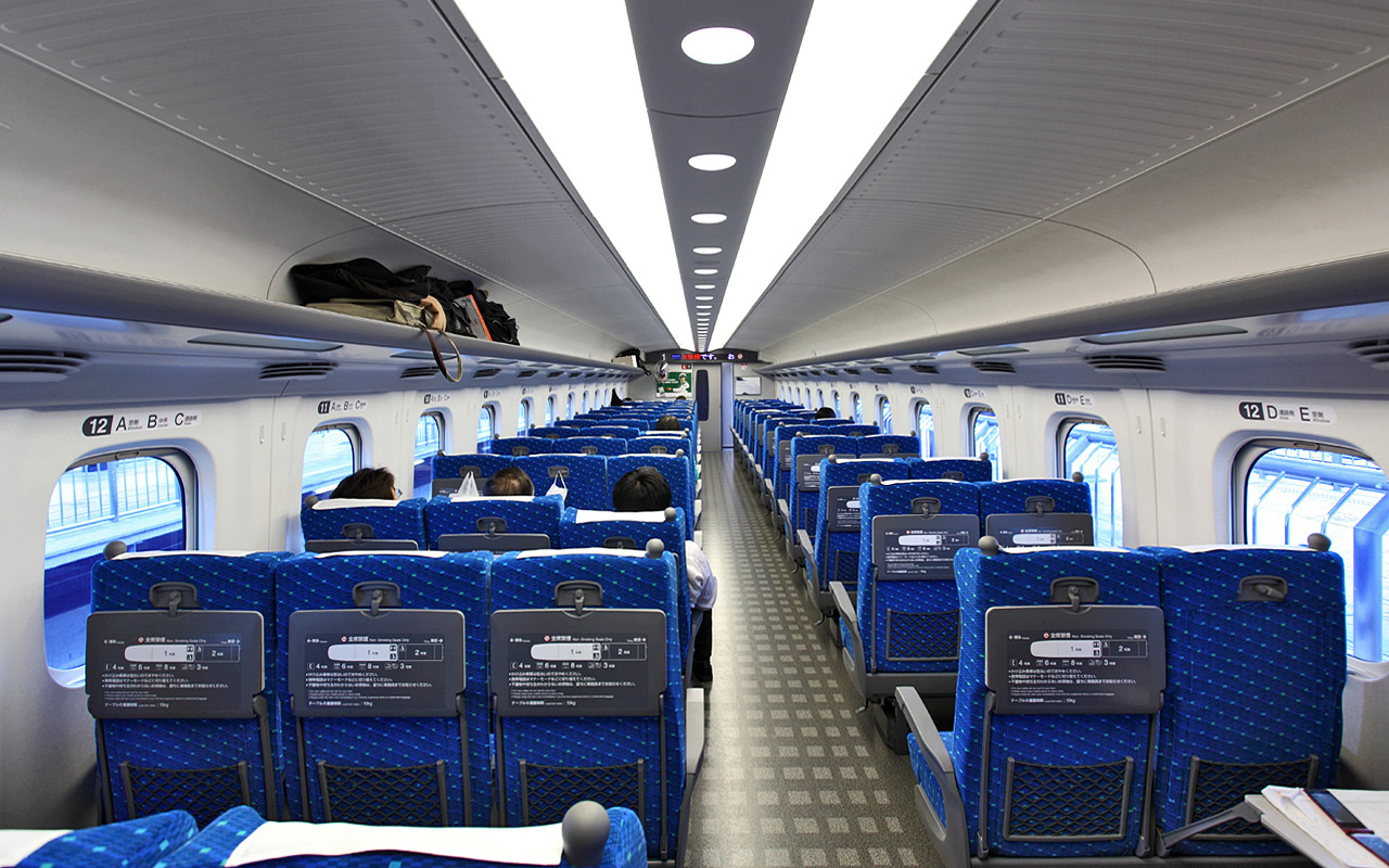 Interior of N700 series Shinkansen train ( Standard Car ).